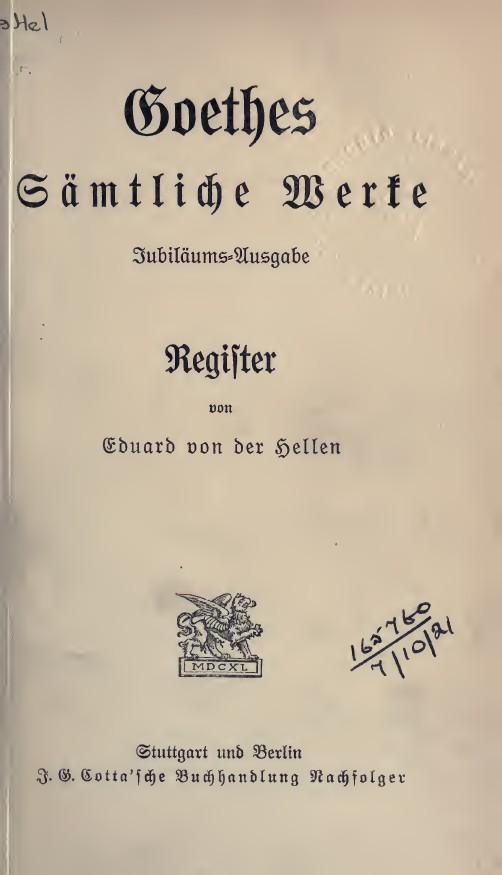 Title page